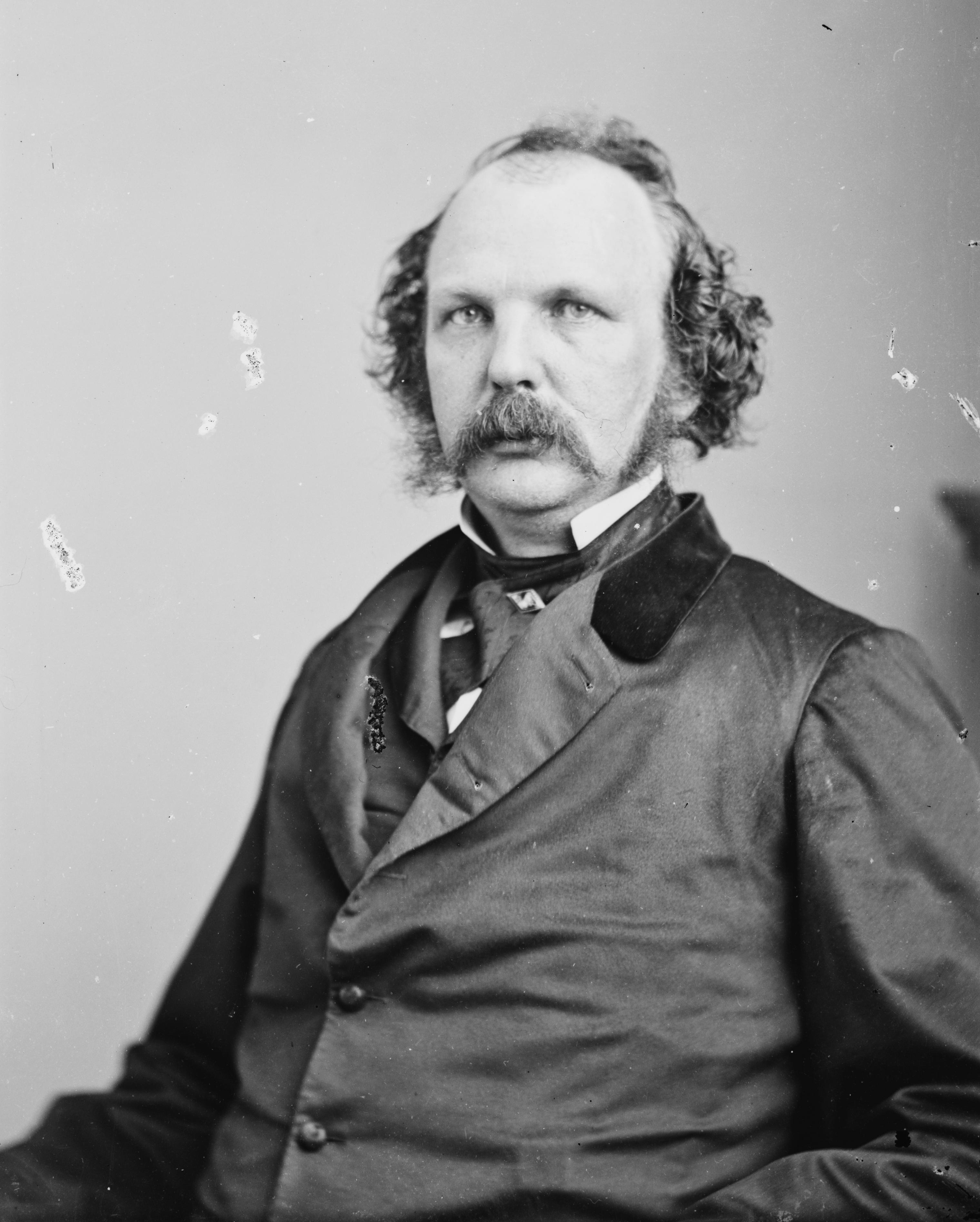 John Godfrey Saxe. Library of Congress description: "John Godfrey Saxe".